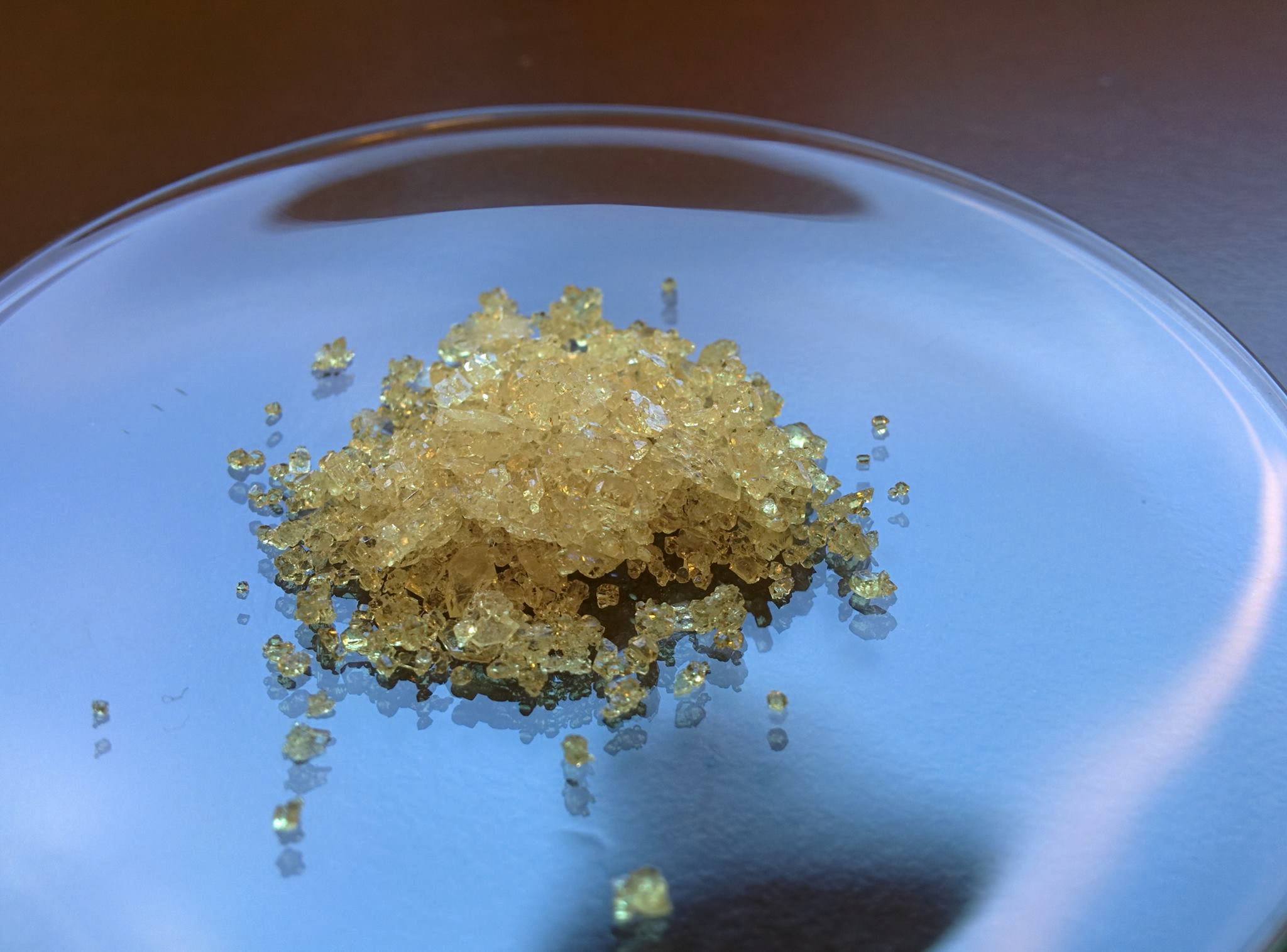 Crystals of potassium hexacyanochromate(III), K3[Cr(CN)6]. The crystals were synthesised by following the procedure from Inorganic syntheses (ed. J.R. Shapley), vol. XXXIV, pp. 144-46. John Wiley & Sons 2004, with some modifications. The raw product was recrystallised from cold water. Photographed on October 29th, 2015, at the University of Copenhagen, Department of Chemistry (Kemisk Institut).